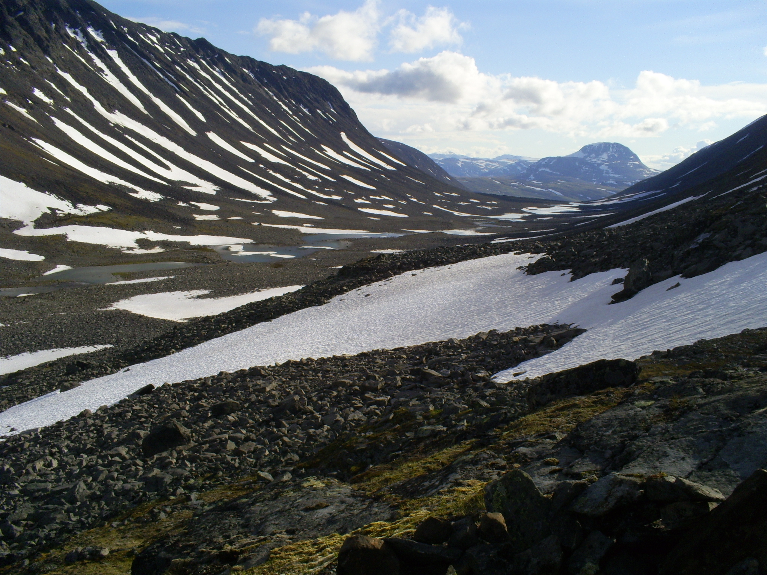 Koupervagge valley, Kebnekaise area